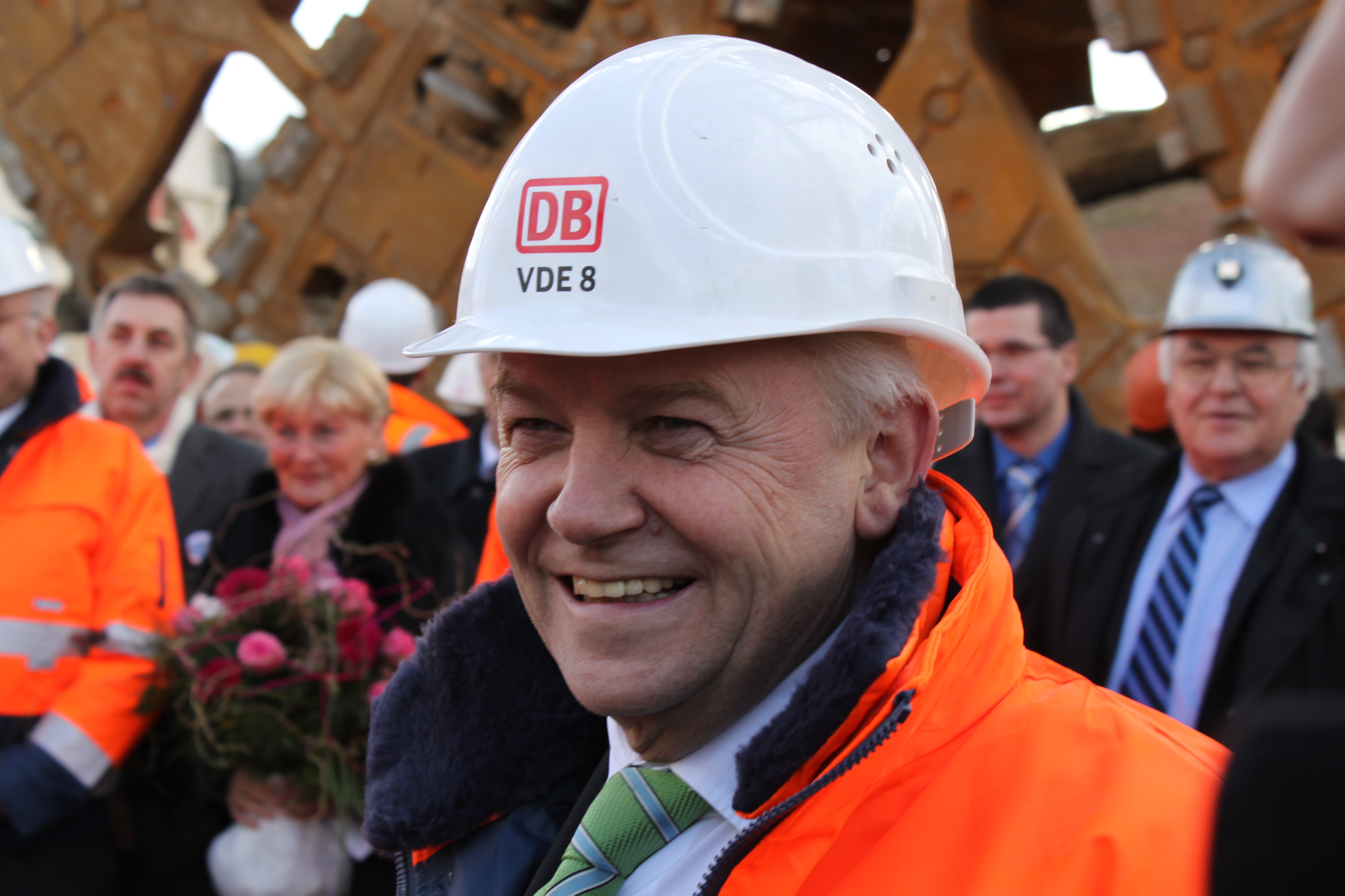 Rüdiger Grube, chairman of the board at Deutsche Bahn AG, at the unconvering ceremony of the cutter head at the Finne Tunnel.